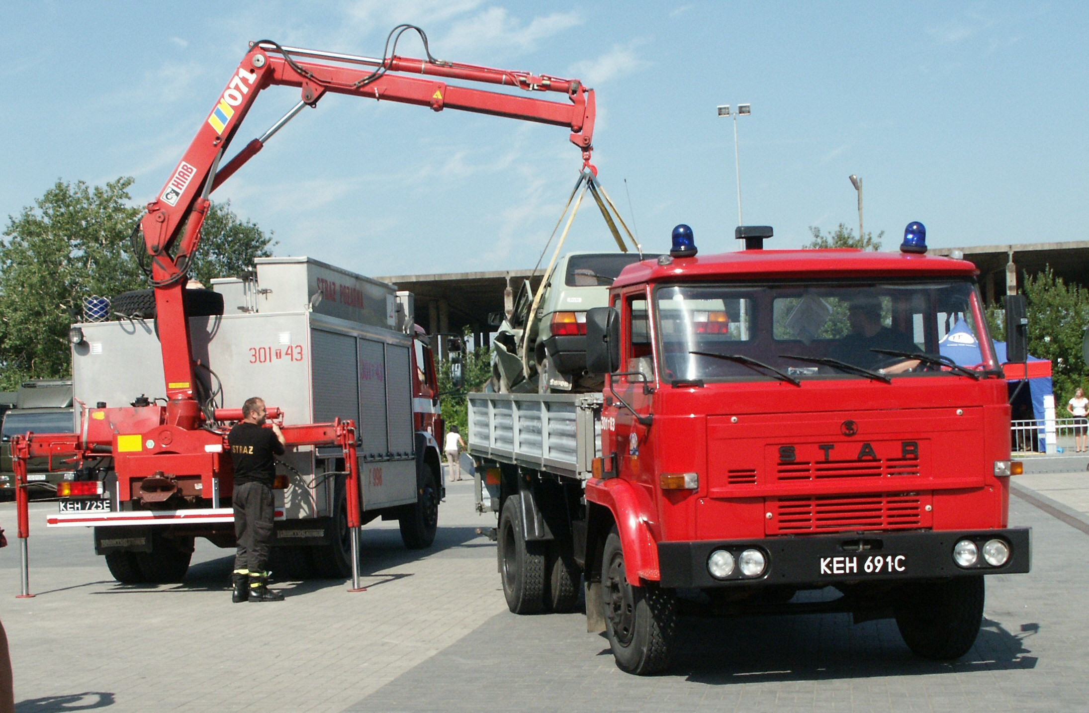 Star fire engine and Star 200 truck of Kielce fire brigade, Poland